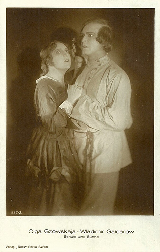 German postcard by Ross Verlag, no. 937/2, 1925-1926. Vladimir Gajdarov and Olga Gzovskaya in Schuld und Sühne, adaptation of Dostojevsky's Crime and Punishment (Raskolnikov). Might be 1922/1923 German version called Raskolnikow (directed by Robert Wiene), starred Grigori Chmara and not Gajdarov. This image is a movie star postcard published by Ross Verlag in Berlin. This is image nr. 937/2 from their series. It was published ca. 1925–1926. This tag does not indicate the copyright status of the attached work. A normal copyright tag is still required. See Commons:Licensing for more information. In particular, Ross images are in the public domain in Germany only if it can be shown that the photographer (usually mentioned on the image itself) has died more than 70 years ago. Ross images that are in the public domain in Germany may still be copyrighted in the United States if they were first published later than 1922 and were still copyrighted in Germany on January 1, 1996 (i.e. if the photographer died in 1926 or later).